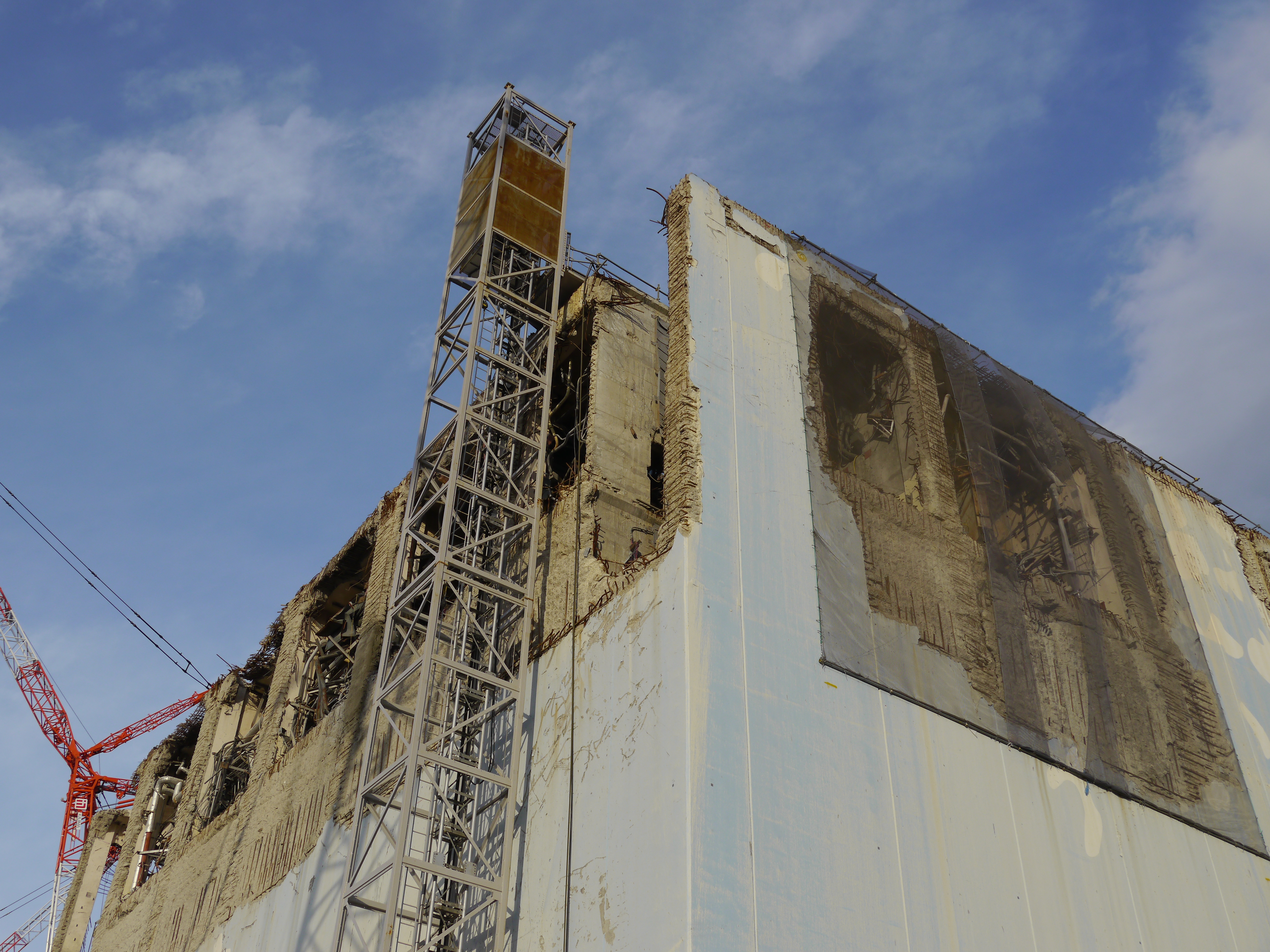 Fukushima Daiichi: Two Years On Unit 4 of Fukushima Daiichi nuclear power plant. The remains of the building’s upper levels, which were destroyed by a hydrogen explosion, have been removed to allow for construction of a cover, so that fuel stored in the unit’s spent fuel pool can be moved to a common pool. Fukushima Daiichi Nuclear Power Plant. 18 December 2012 Photo Credit: Gill Tudor / IAEA